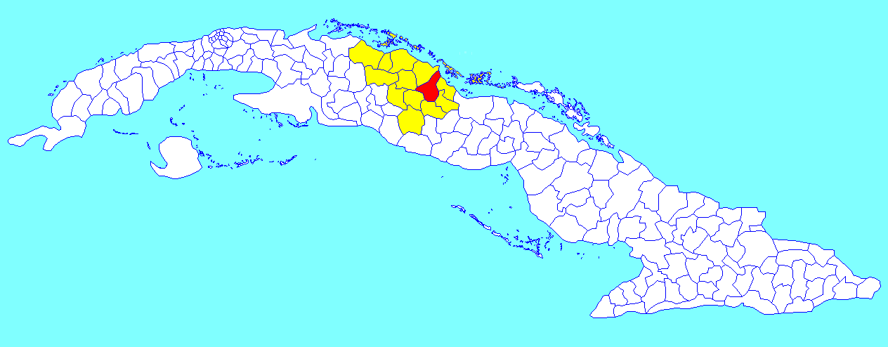 A map of the municipality of Camajuaní (shown in red) within the Province of Villa Clara (yellow) and Cuba.